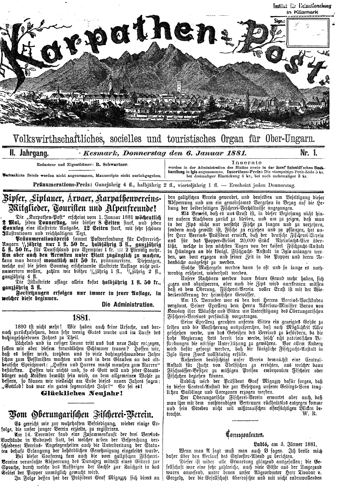 Karpathenpost - German newspaper in Austria-Hungary (now Slovakia)